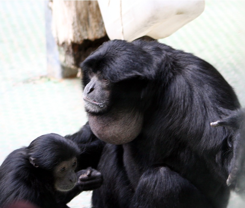 Siamang with inflated throat pouch while shouting (Tierpark Hellabrunn, Germany)